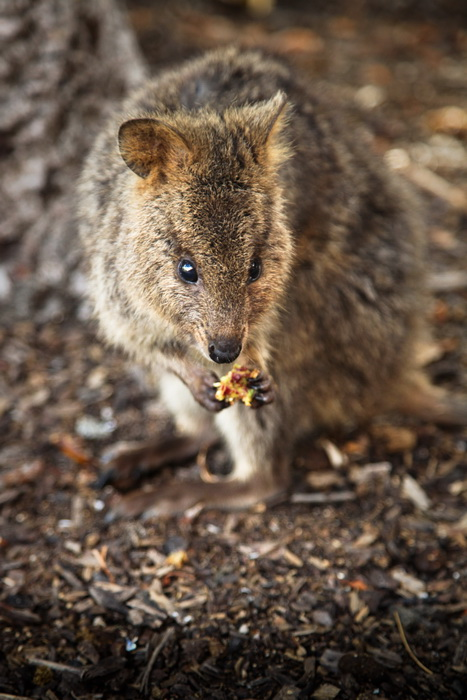 Quokka by the Hotel Rottnest, WA, Rottnest Island